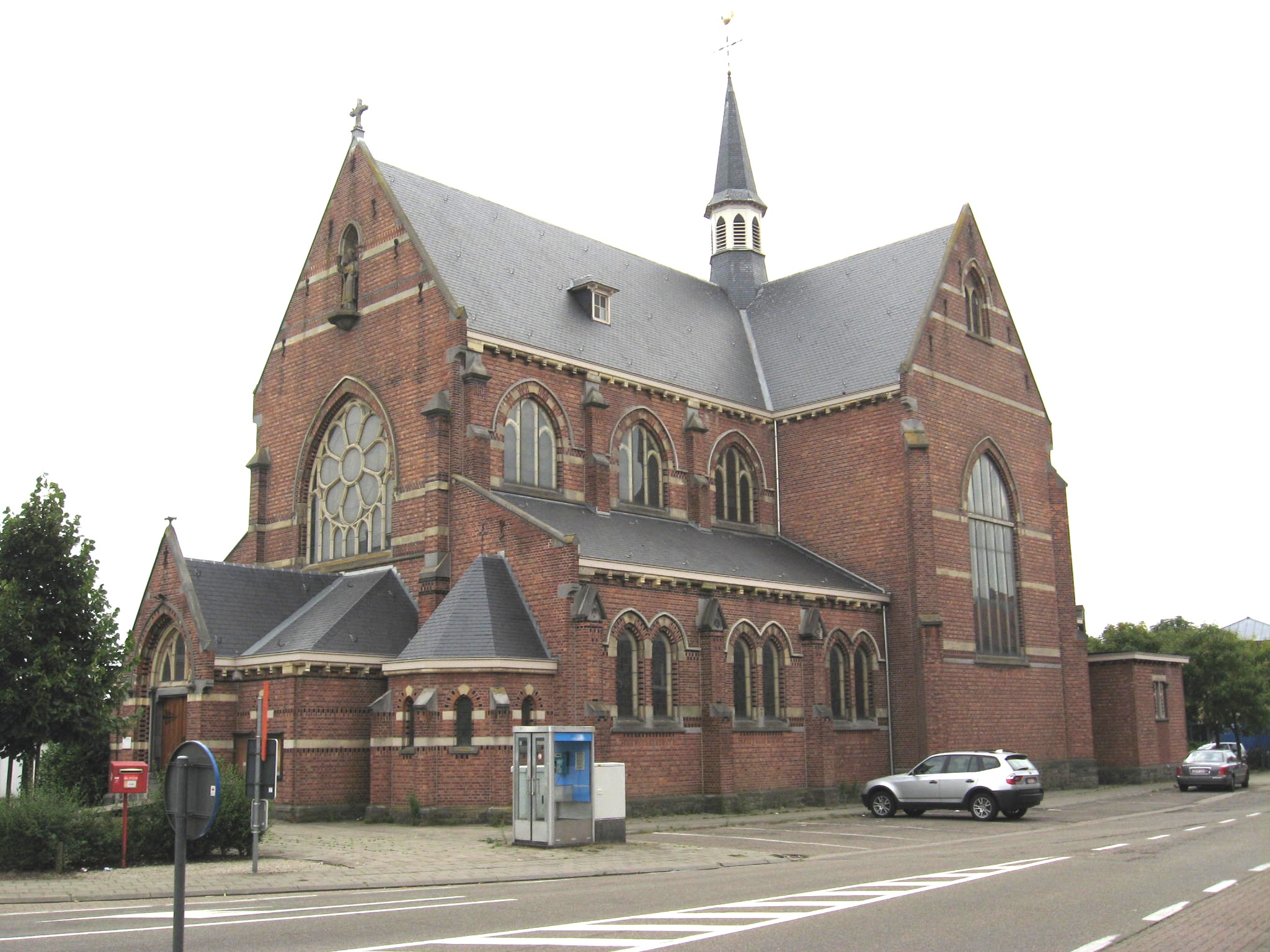 Church of Saint Lambert in Hasselt (Kiewit), Limburg, Belgium